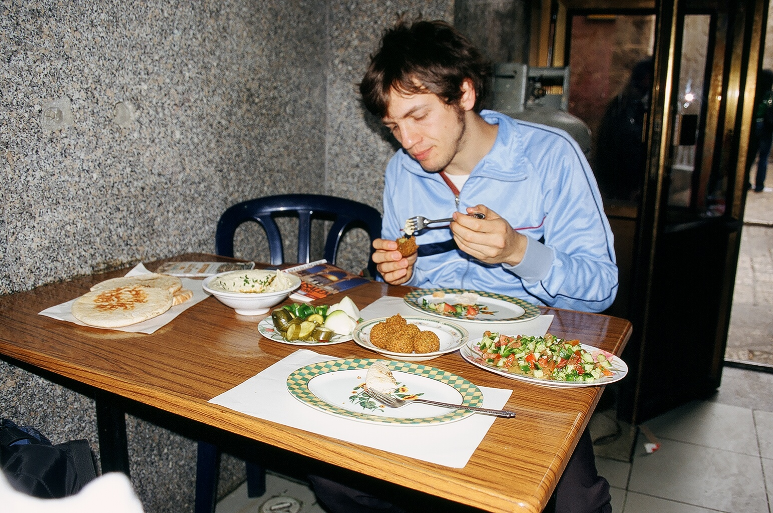 Old Jerusalem, ABU SHUKRI RESTAURANT, 63 Al-Wad st. opposite to 5th station of Via Dolorosa Jewish man eating kosher food at a restaurant in Jerusalem (actually this restaurant is not koshher but halal) - Israel 4th day (24 March 2005) photo number 028